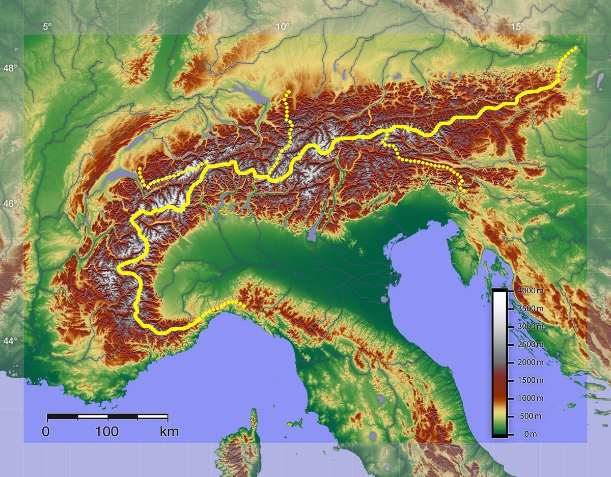 Main chain of the Alps, and other important watersheds of the Alps